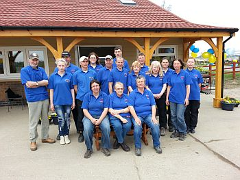 New Manor Farm Shop with staff outside